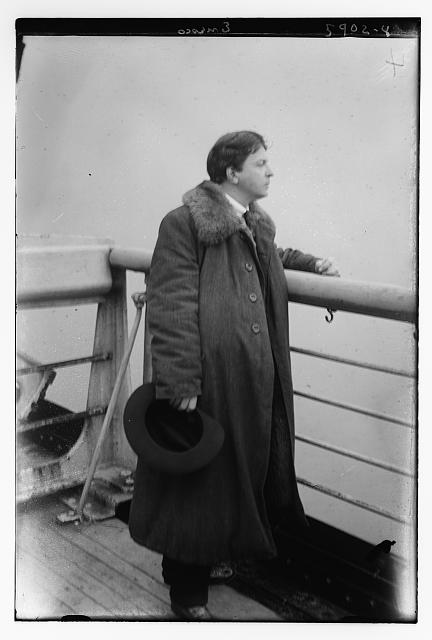 George Enescu on a ship's deck crossing the Atlantic (probably the ocean liner Berengaria)